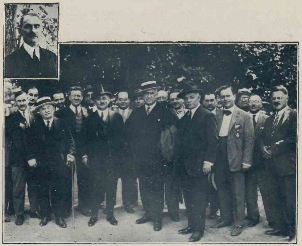 The Romanian Government led by Barbu Știrbey, when it left the governance.